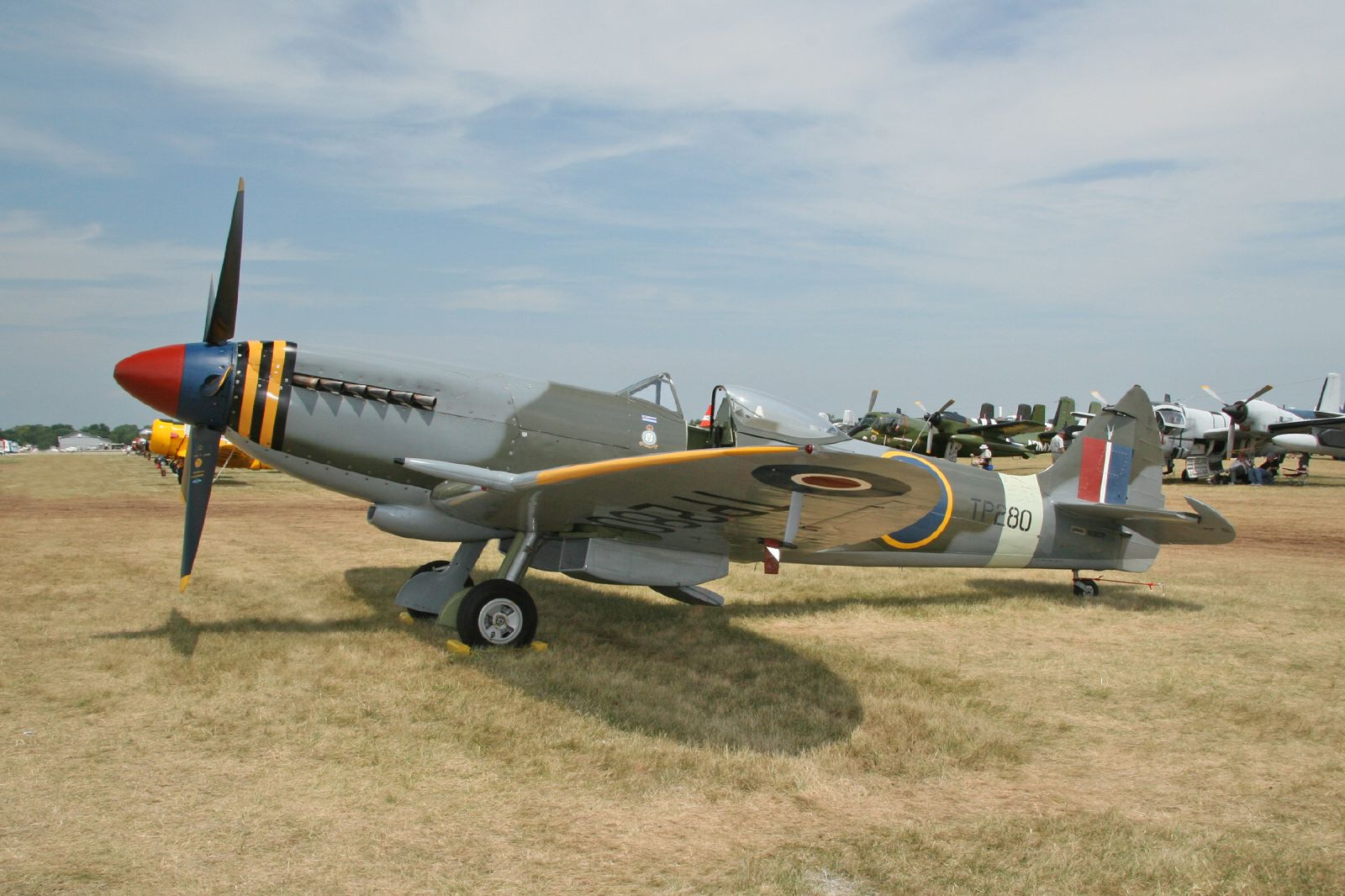 Supermarine Spitfire MK XVIII TP280, from Frasca Museum Champaign-Urbana, Illinois. At the 2006 Oshkosh Air Show.